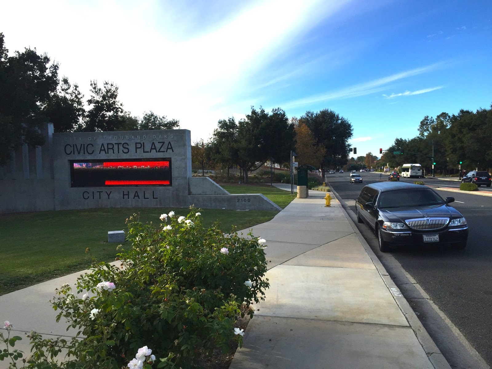 Limo from American Luxury Limousine at Thousand Oaks Civic Arts Plaza